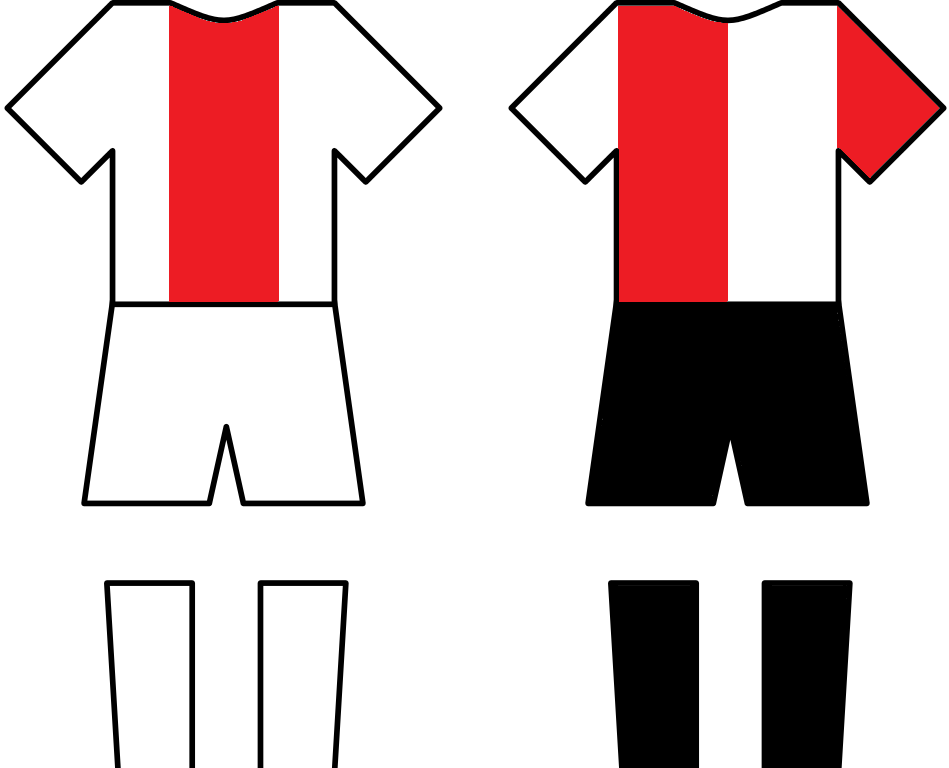 Kits of Ajax (left) and Feyenoord (left)